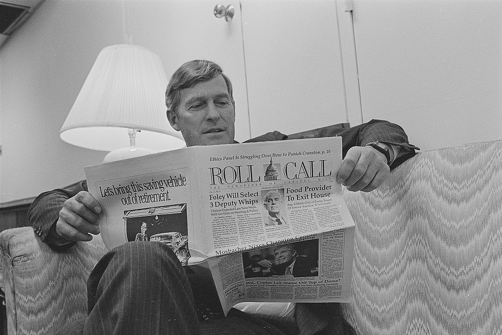 Senator Tim Wirth, half-length portrait, seated on couch reading an issue of Roll Call newspaper